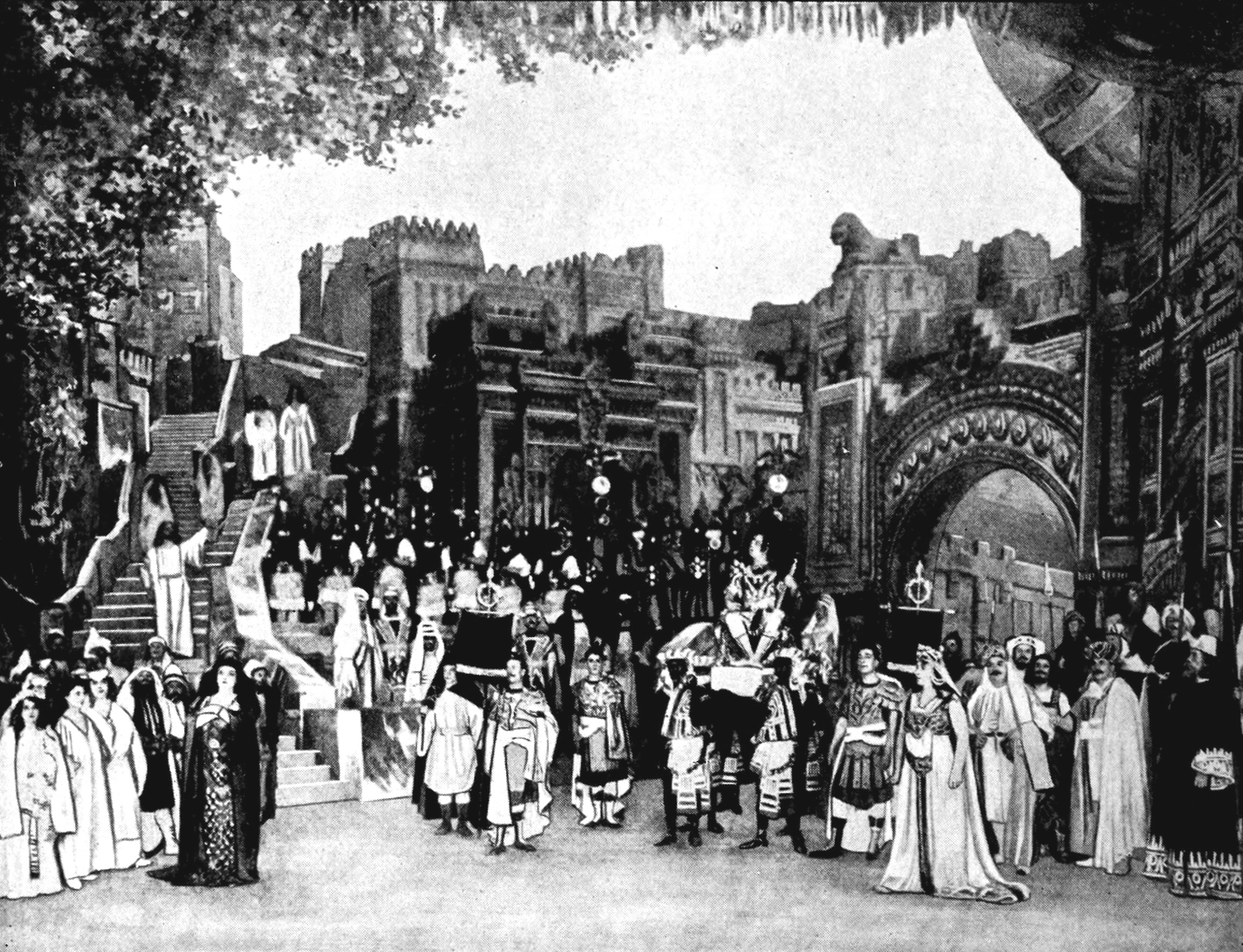 Massenet - Hérodiade, act III - Public square in Jerusalem Title: The Victrola book of the opera : stories of one hundred and twenty operas with seven-hundred illustrations and descriptions of twelve-hundred Victor opera records Year: 1917 (1910s) Authors: Victor Talking Machine Company Rous, Samuel Holland Subjects: Operas Publisher: Camden, N.J. : Victor Talking Machine Co. Text Appearing Before Image: RENAUD AS HEROD Herod describes the visionof Salome which haunts himnight and day, and declares thatto possess her he would gladlysurrender his soul. He drinksthe love potion, and falls on thecouch in a delirious sleep. SCENE II—Public Square atJerusalem The scene shows Herod re-ceiving messages from the allies,and denouncing Rome. Herodiasenters and announces that the 205 VICTROLA BOOK OF THE OPERA—MASSENETS HERODIADE Text Appearing After Image: PUBLIC SQUARE IN JERUSALEM Roman general, Vitellius, is approaching. The people are terrified, but Vitellius declares thatRome desires the favor of the Jews and will give back the Temple of Israel. John and Salome enter and Vitellius is surprised at the honor paid to the Prophet.Herod gazes with eyes of love at Salome, while Herodias watches her jealously. Johndenounces Vitellius as the curtain falls. ACT III SCENE l—Phanuels HousePhanuel is disclosed gazing at the city, which lies silent under a starry sky, andprophesying the fate which is to overwhelm it. Air de Phanuel (Oh, Shining Stars) By Marcel Journet, Bass (In French) 74152 12-inch, $1.50 He calls upon the stars to tell him what manner of man is this John, who speakswith such authority. Is he a man or a god ? he cries. Herodias enters, much agitated.Phanuel inquires what has brought the Queen to his house, and she cries, Vengeanceon the woman who has stolen Herods love! He reads her fate by the stars, and seesnothing but bl